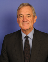 Minnesota Congressman Rick Nolan.